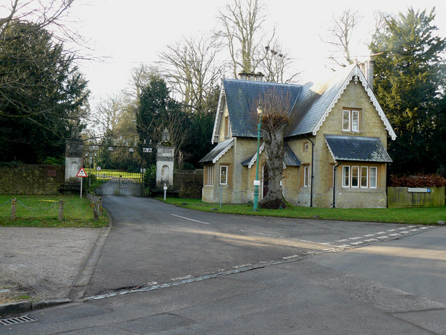 Amport - Gates of Amport House The gates of Amport House and its gatekeepers lodge.